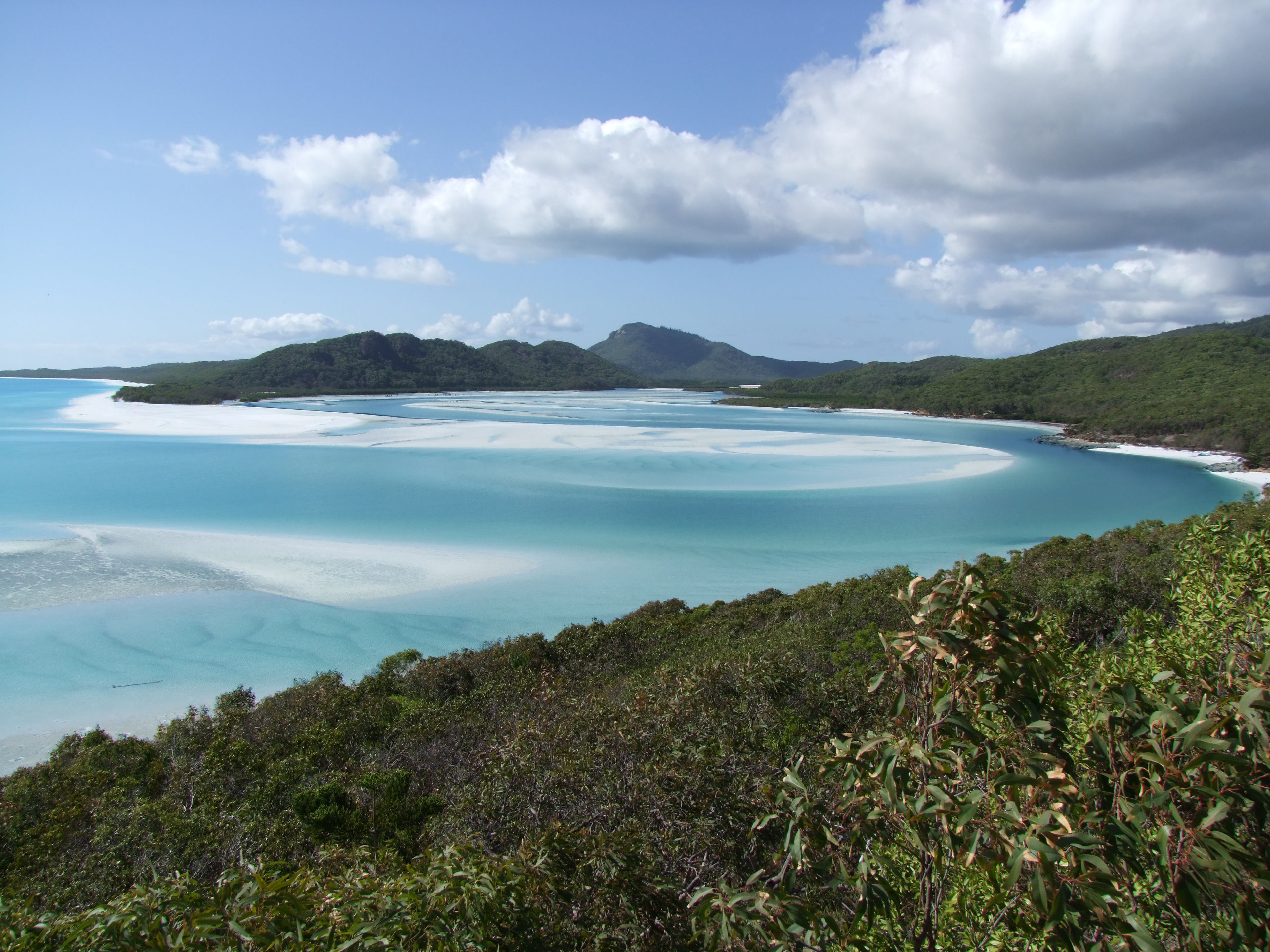 Hill inlet, Whitsunday Island, Queensland, Australia.